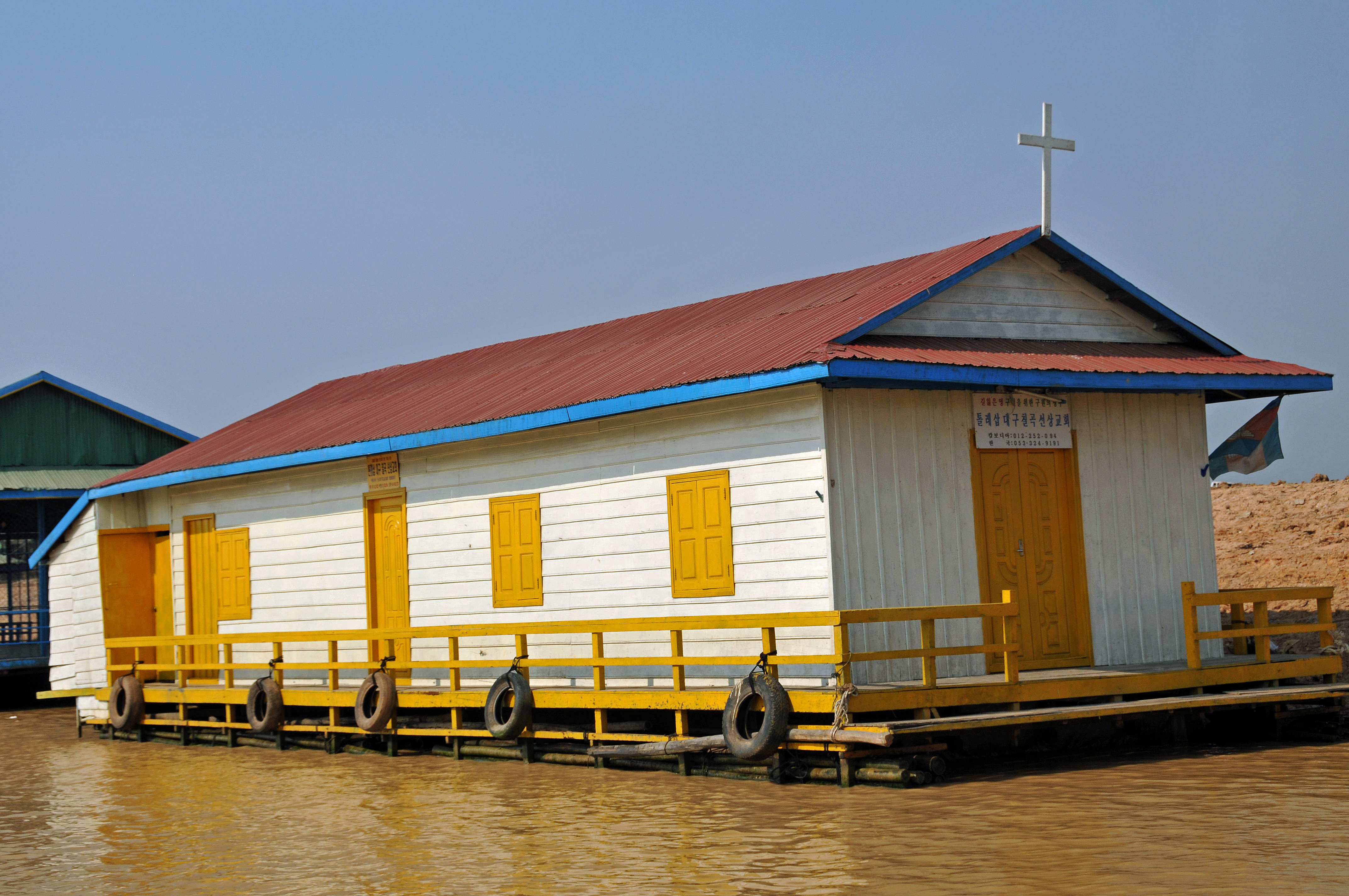 PLEASE, no multi invitations (none is better) in your comments. Thanks. A Christian Church on Tonle Sap, Cambodia